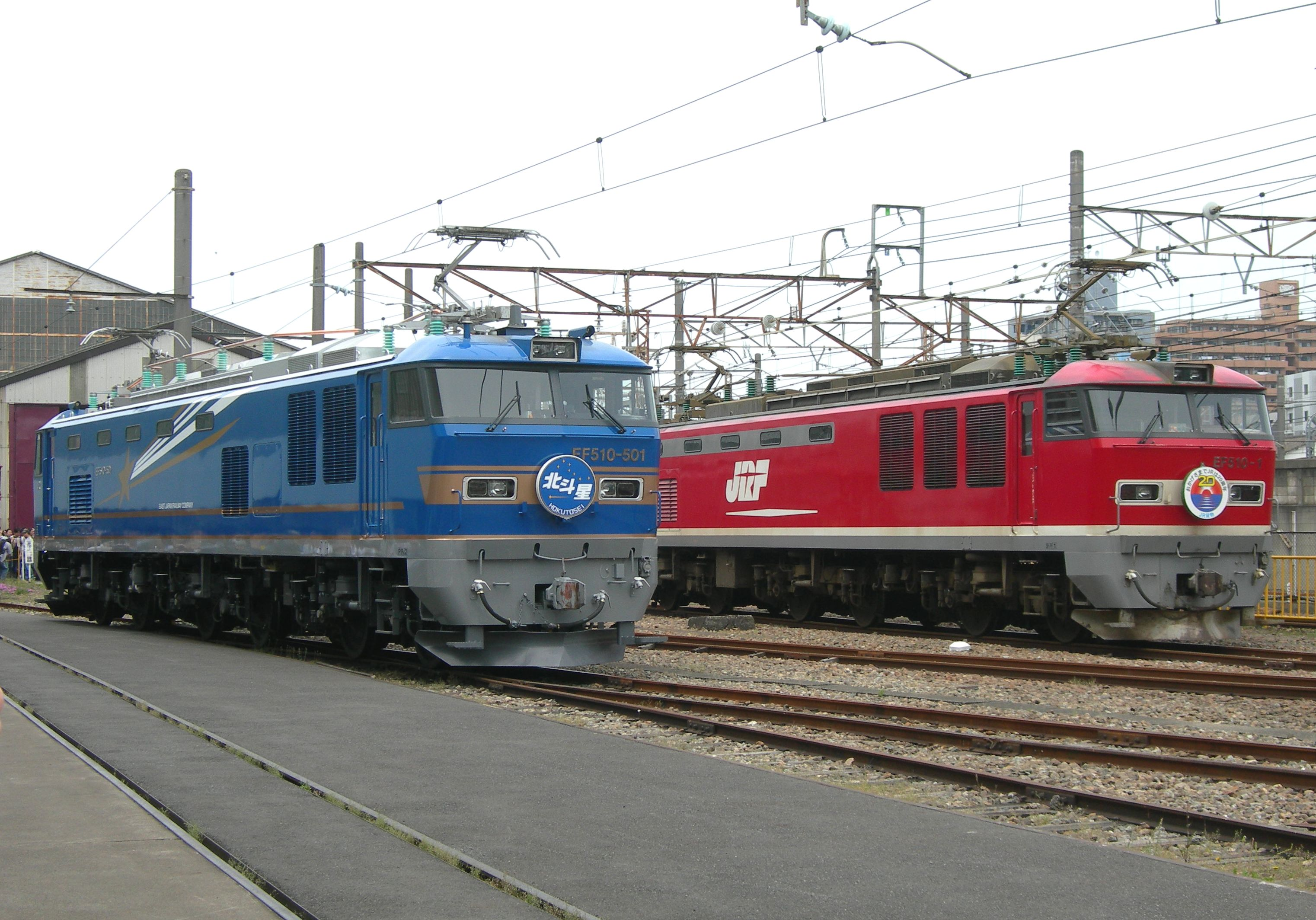 Class EF510 locomotives EF510-501 (left) and EF510-1 (right) on display at Omiya Works open day